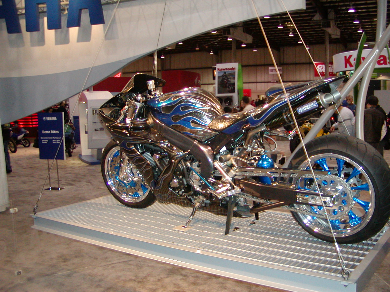 A customized Yamaha motorcycle with a nitrous oxide tank on display at the International Motorcycle Show in San Jose, California.